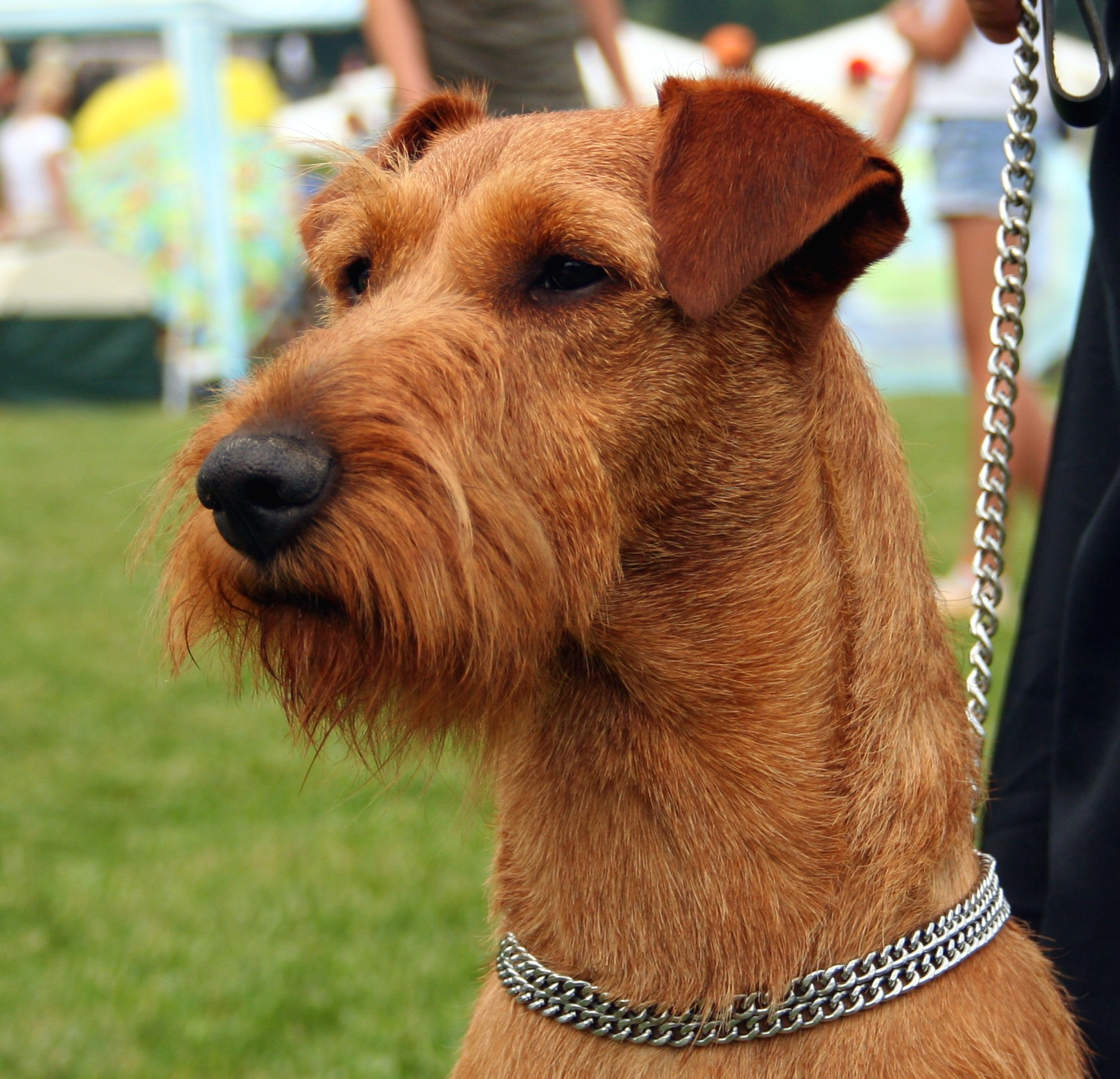 Irish Red Terrier during dog's show in Racibórz, Poland